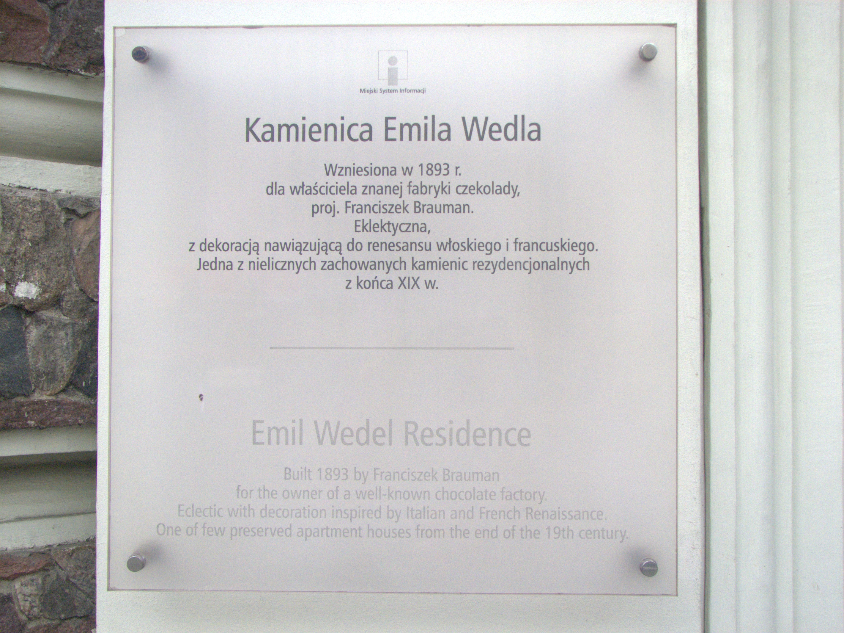 Information tablet on Emil Wedel's residence